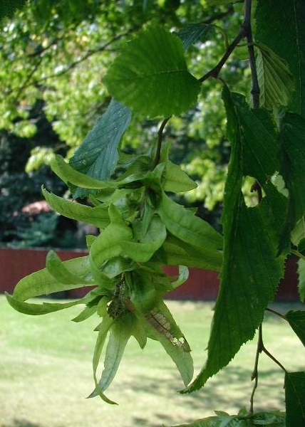 Carpinus betulus: Fruits and foliage